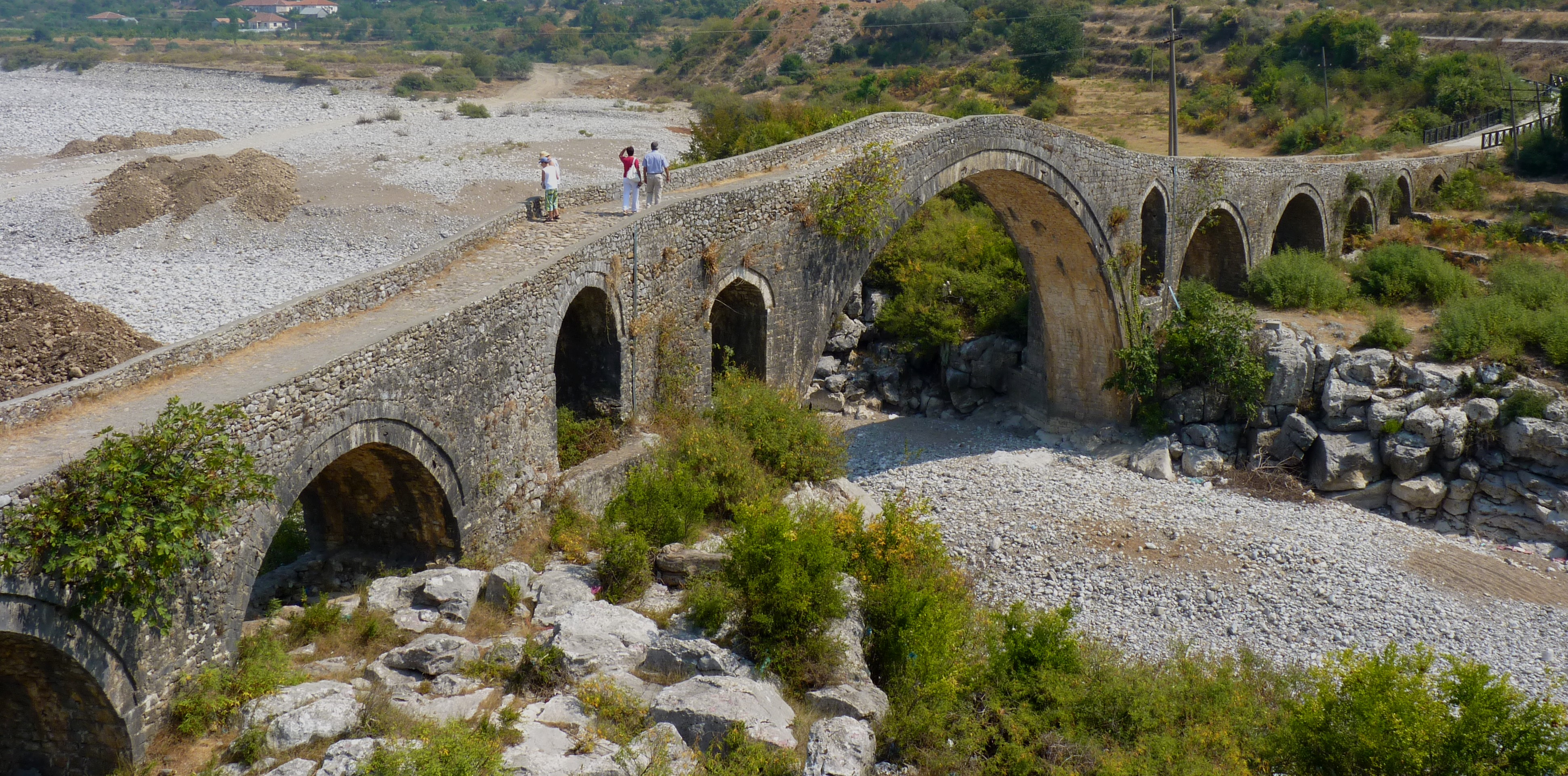 Stone bridge in the Albanian Mes